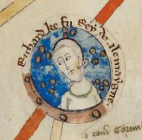 Richard of Cornwall